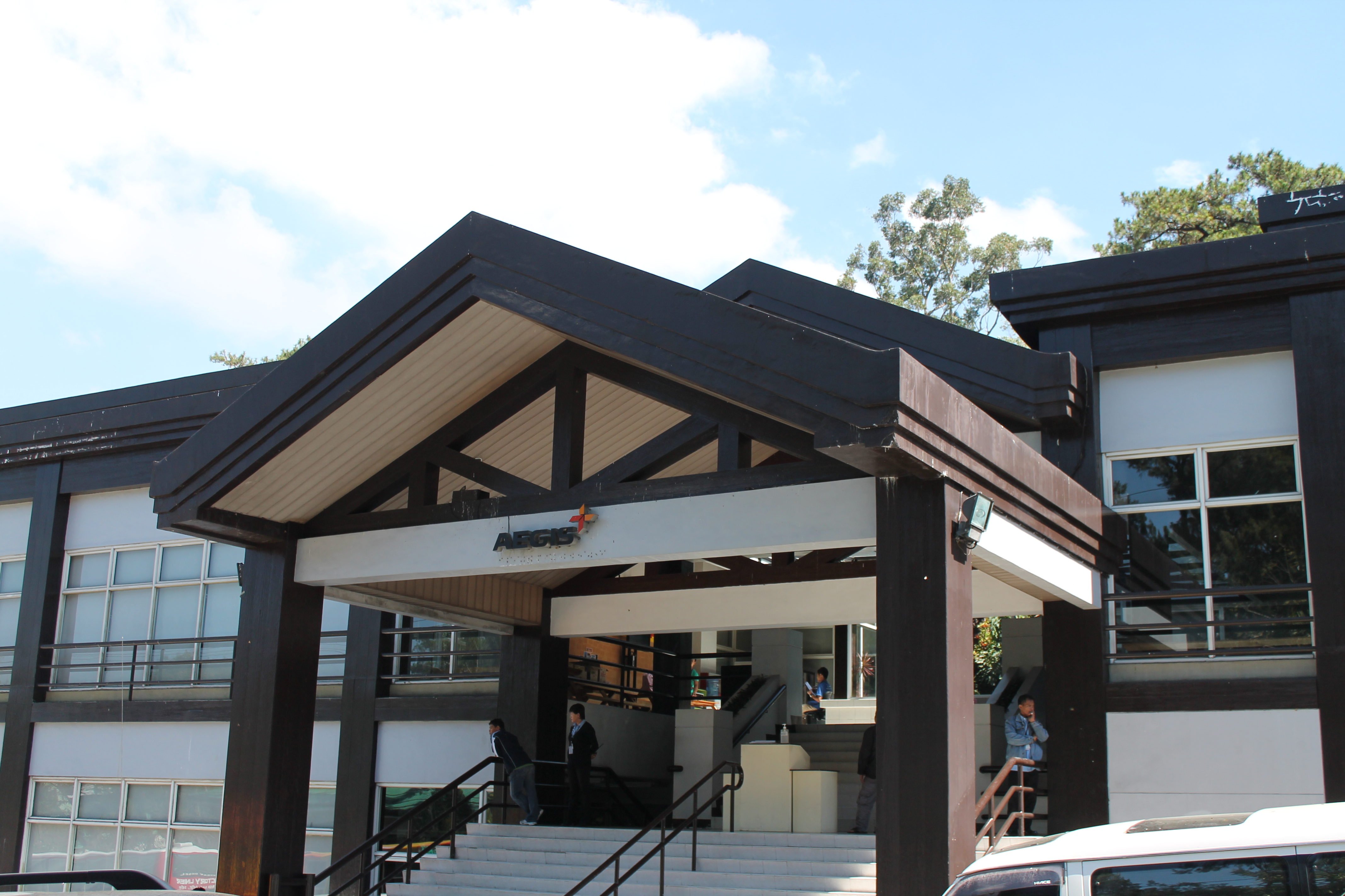 A BPO company with a center in Baguio City